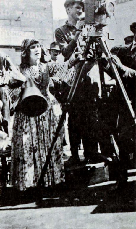 Still from the American western serial film Ruth of the Rockies (1920) with Ruth Roland directing a scene, on page 99 of the September 4, 1920 Exhibitors Herald. The cinematographer for the serial is listed as being Al Cawood.